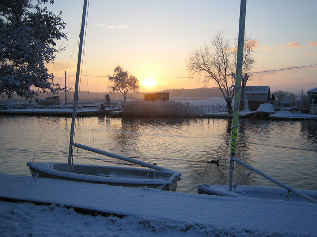 Thurne River near High's Mill Taken early on a late December morning in 2006